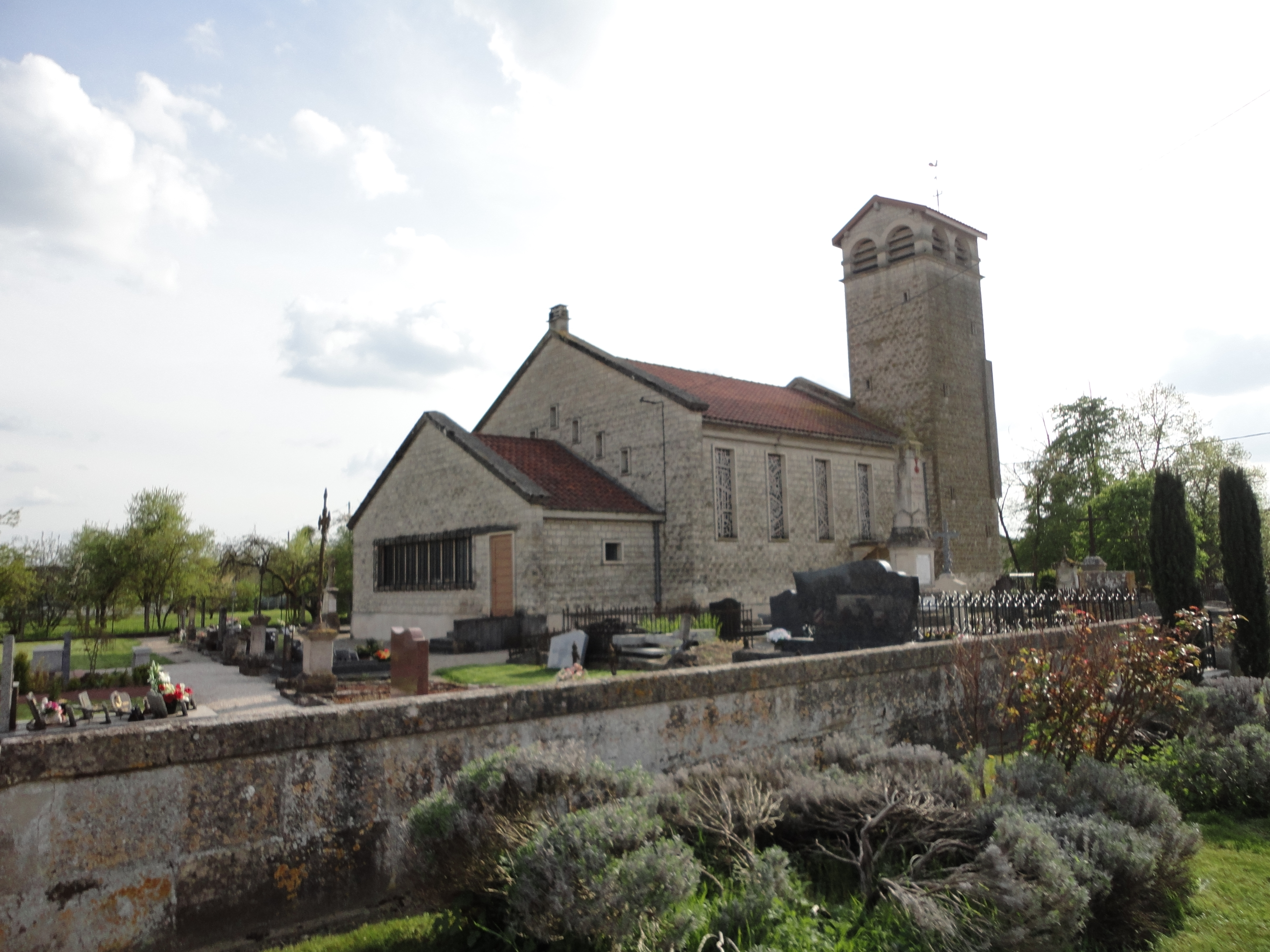 Photography of a church in Sogny-en-l'Angle, France.